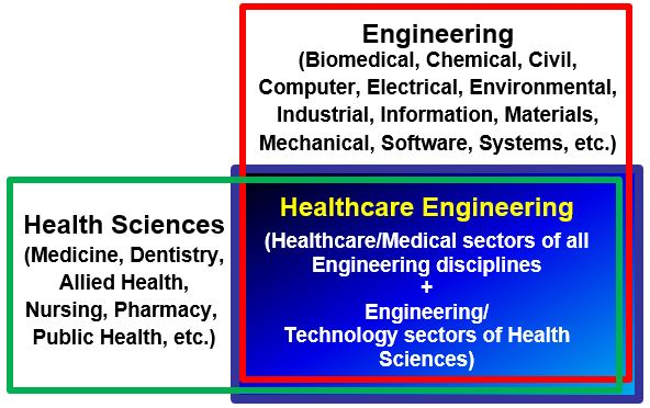 Synergy